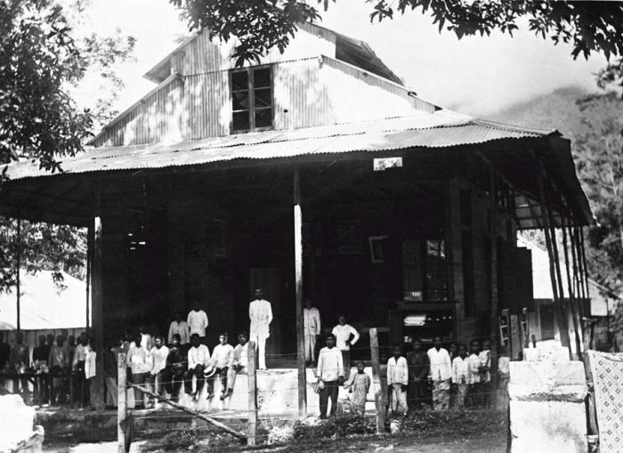 A school of the Protestant Mission at the Maluku